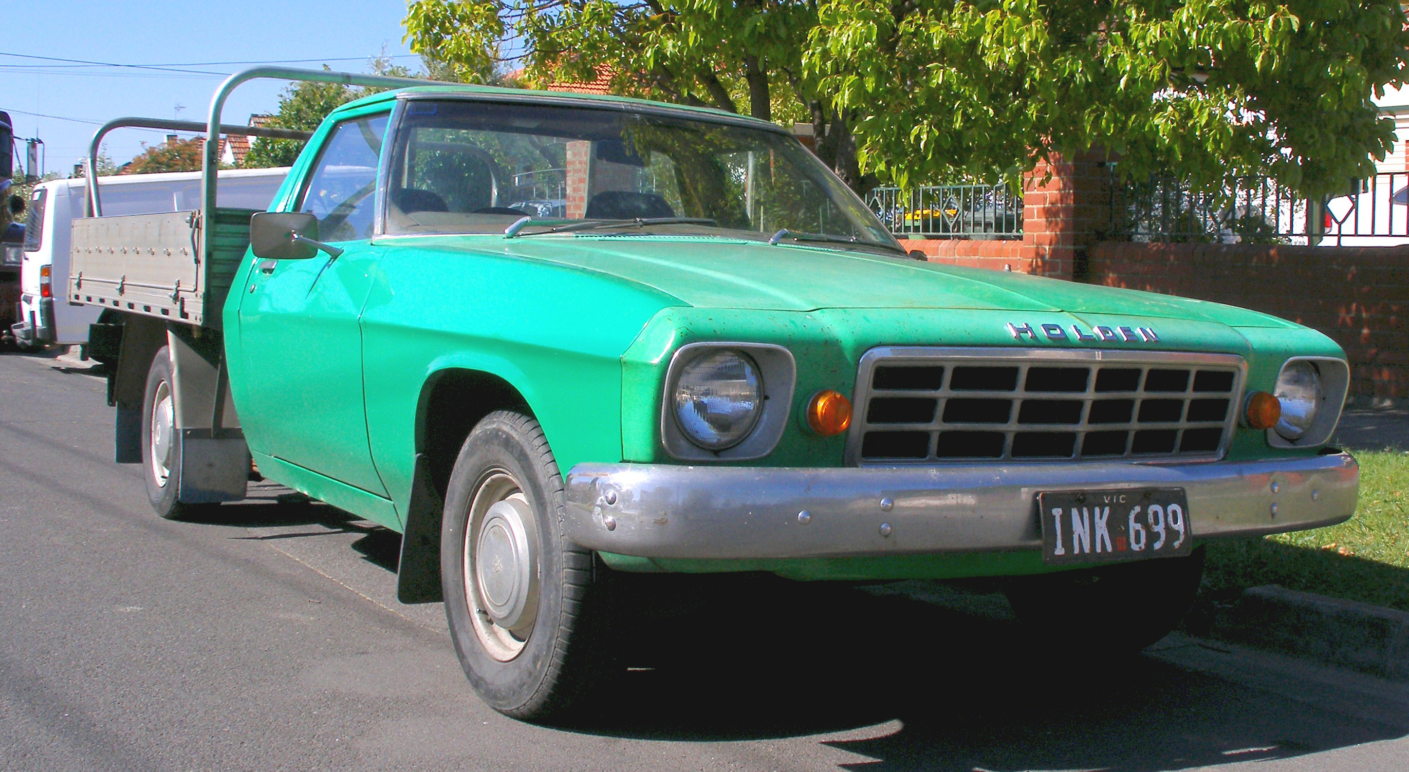 1974–1976 Holden HJ One Tonner cab chassis, photographed in Victoria, Australia.